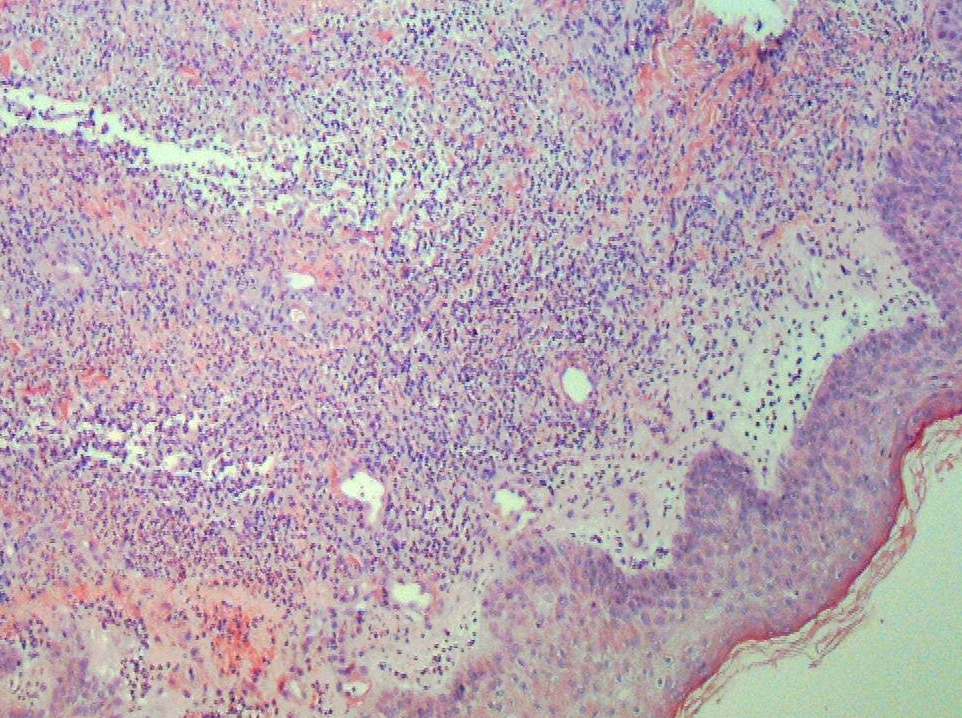 Punch biopsy of a skin lesion showing neutrophilic infiltration in the dermis, with no evidence of vasculitis from a patient with Sweet's syndrome associated with Crohn's disease.